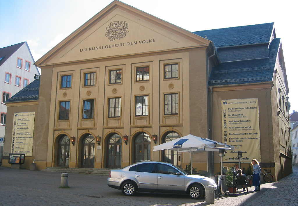 Freiberg, Saxony, Germany: Stadttheater